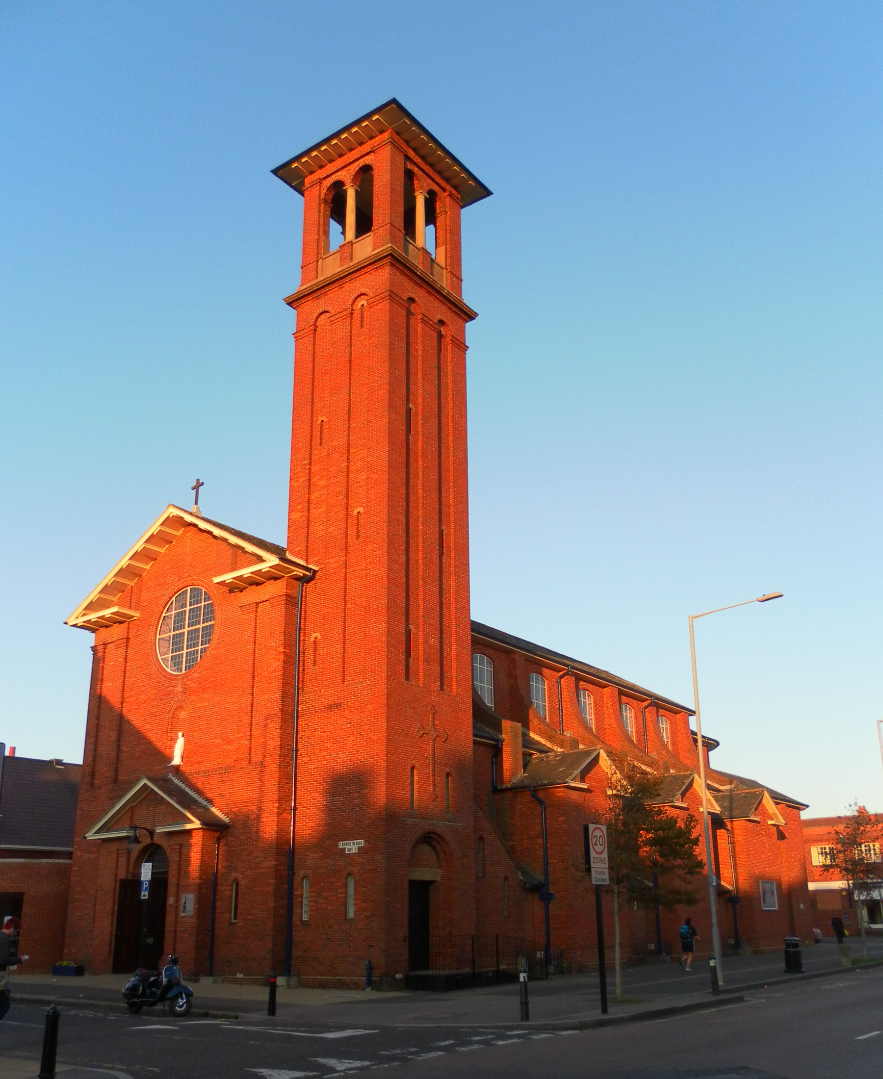 St Peter's Roman Catholic church, Portland Road junction, Aldrington, Brighton and Hove, Sussex, seen from the west